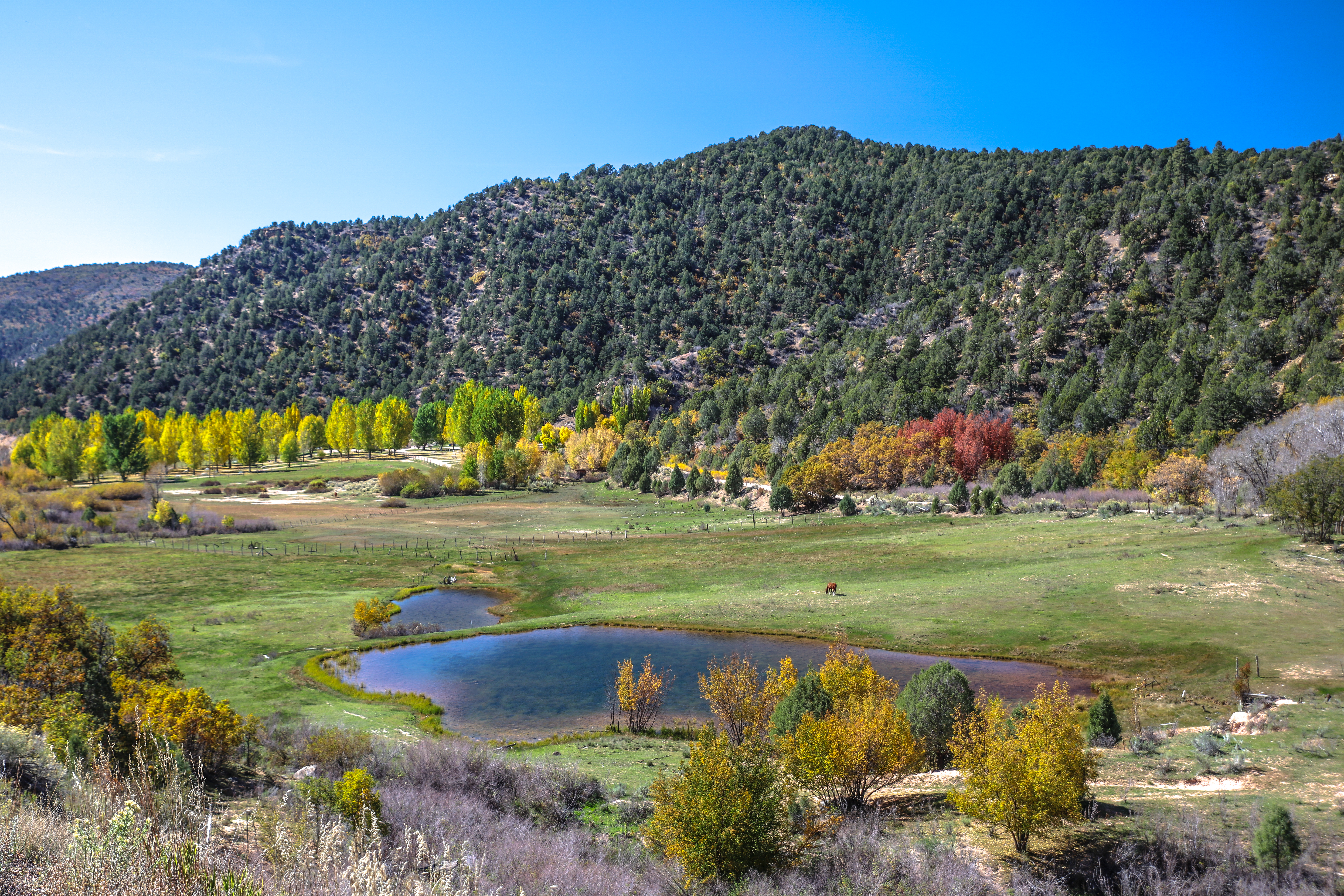 scenic fall colours along Utah Hwy 14...